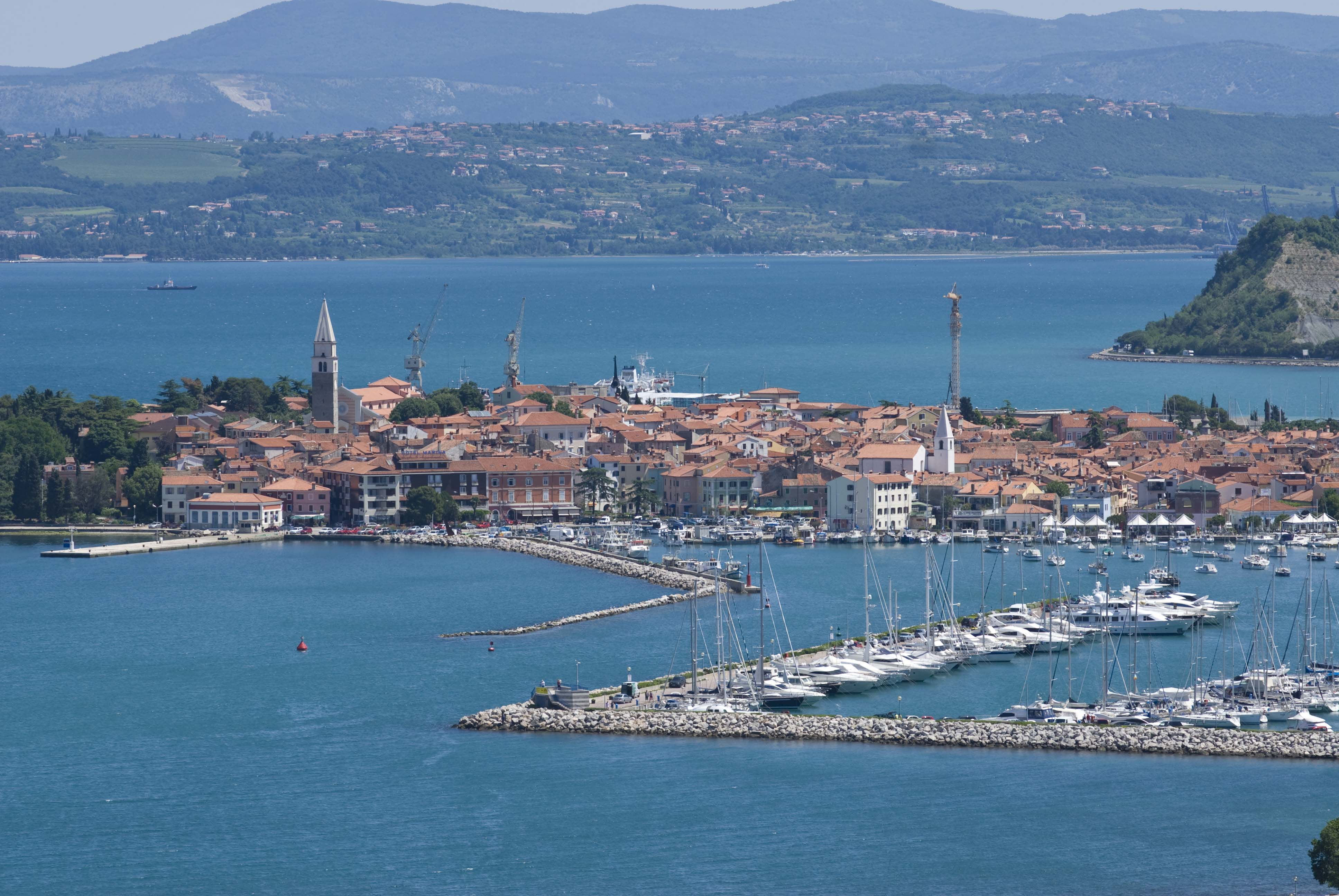 Izola